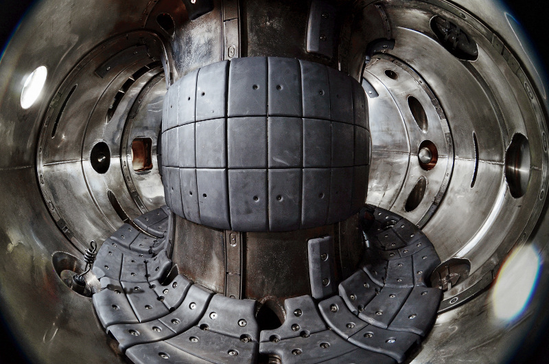 Internal view of the COMPASS vacuum vessel